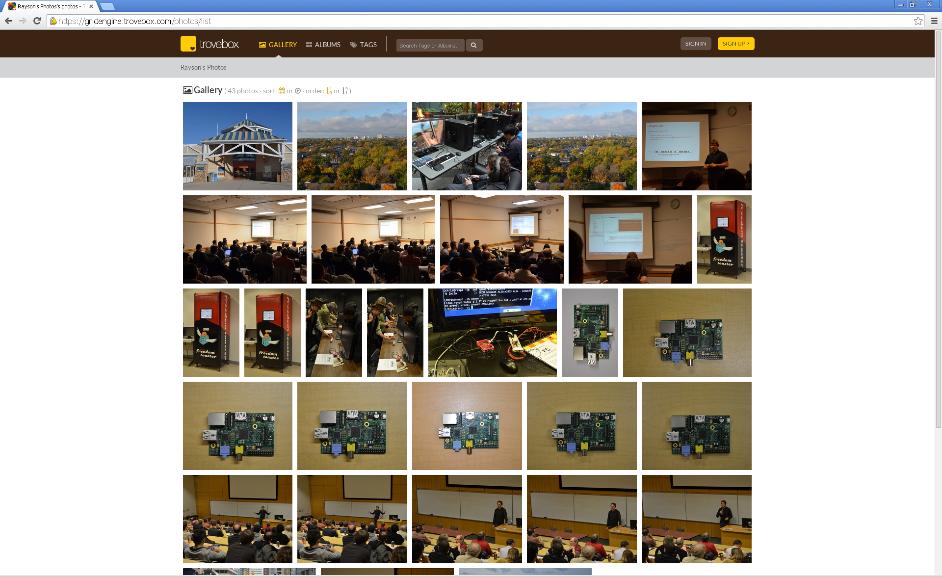 Trovebox User Homepage - Trovebox is under the Apache License. I release all photos on my page under CC0